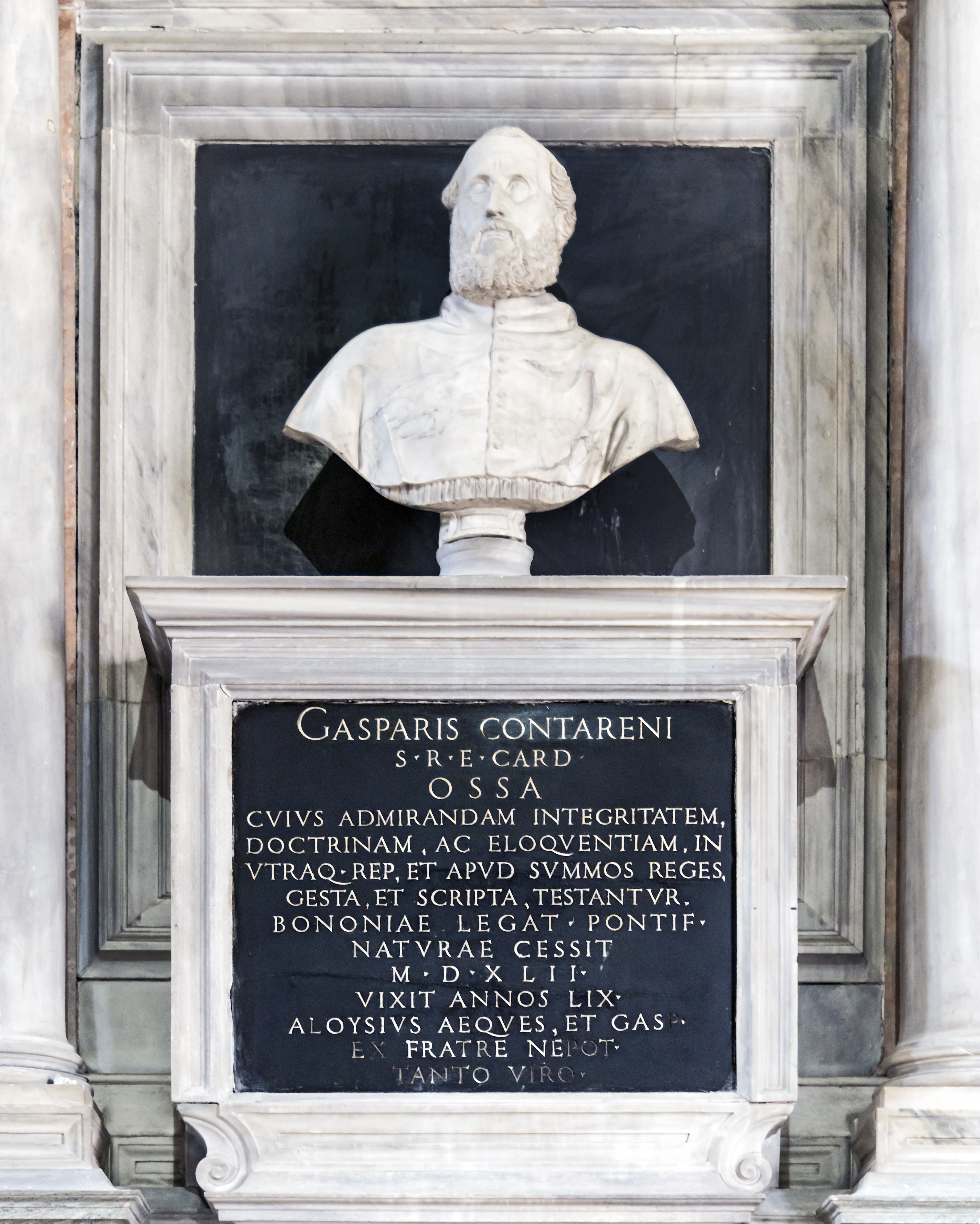 Madonna dell'Orto, Venice - the Chapel Contarini. Monument to the cardinal and diplomat Gasparo Contarini (1483-1542) by Danese Cattaneo about 1563.